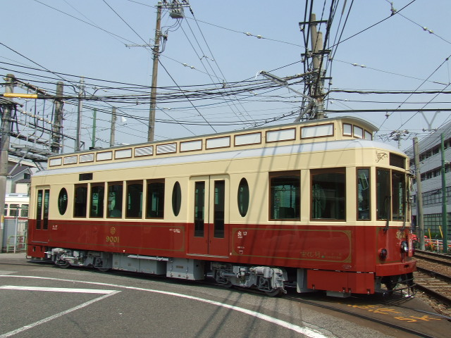 Model 9000-Metropolitan Streetcar-,Tokyo Metropolitan Bureau of Transportation,Japan